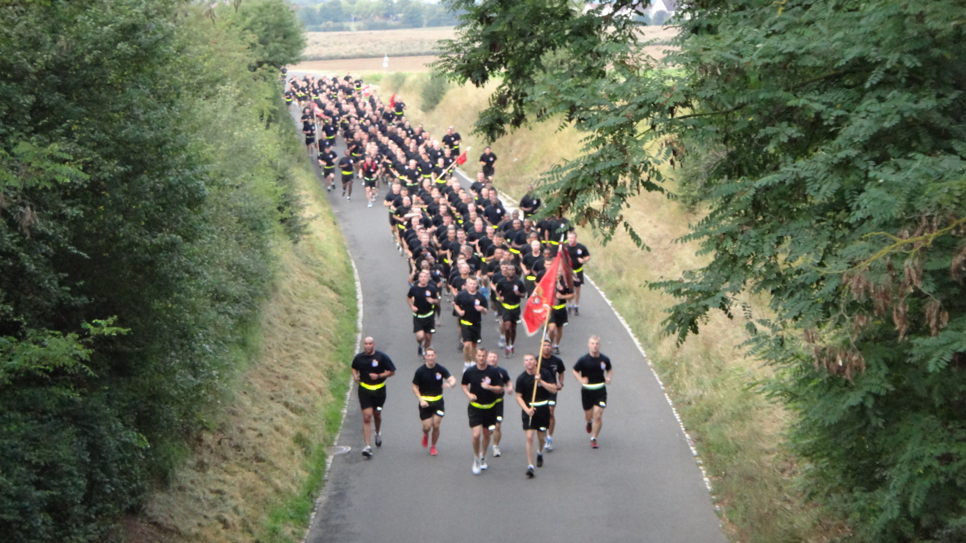 9th Engineer Battalion, Battalion Run, Ledward Barracks, Schweinfurt, Germany 2012